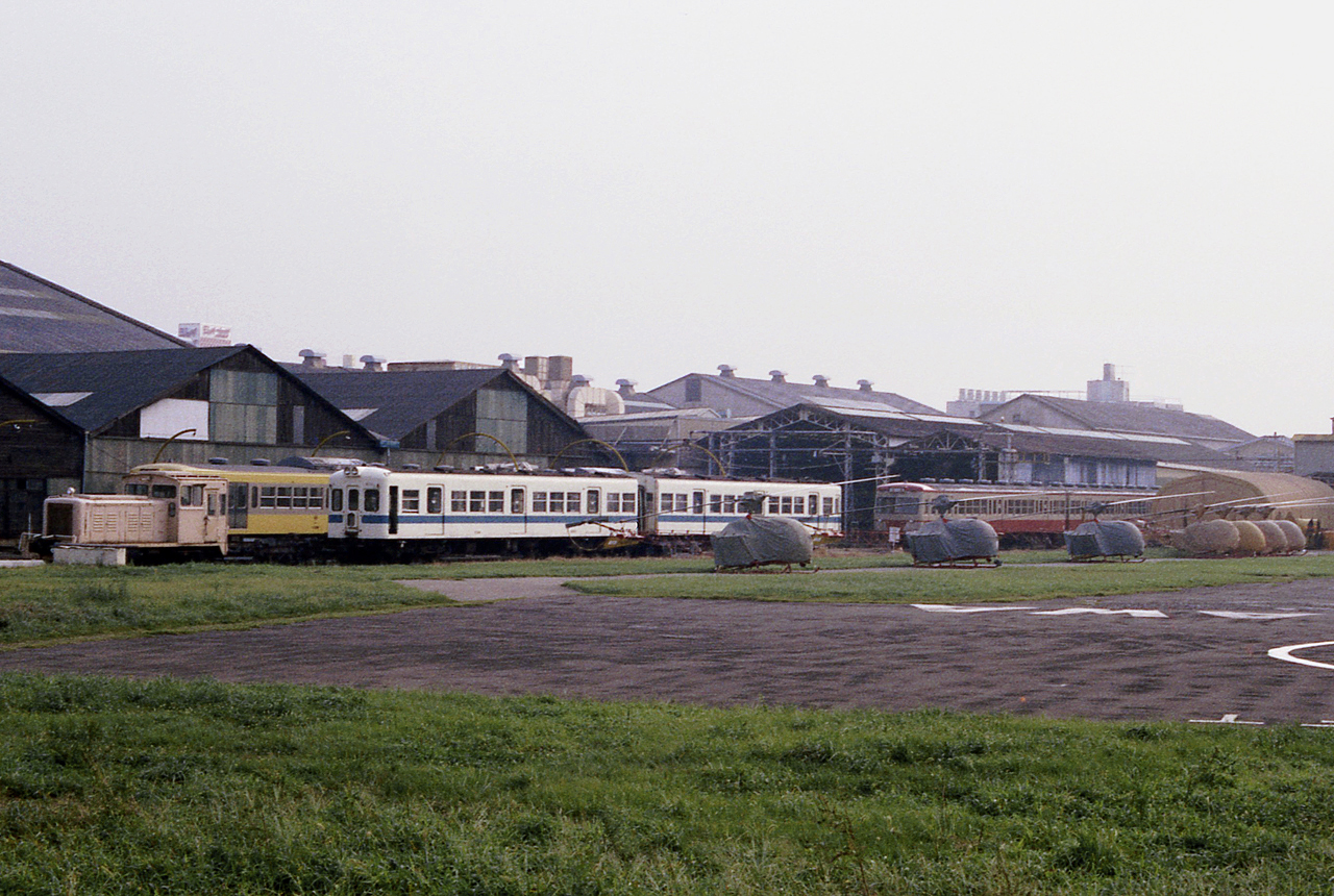 Seibu Tokorozawa Factory viewed from the public road on the south. It shows a new 101 series train, a 701 series before entering the inspection, and an Odakyu 2100 series that has entered for remodeling for the Sangi Railway. Helicopters of the Asahi Helicopter can be seen on the site in front.